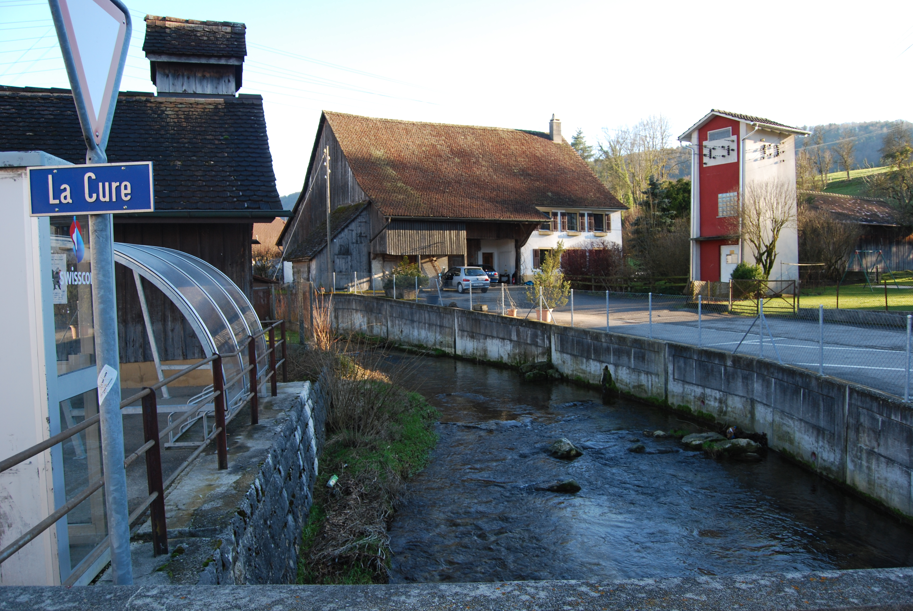 Rivero Scheulte en Courchapoix, canton of Jura, Switzerland